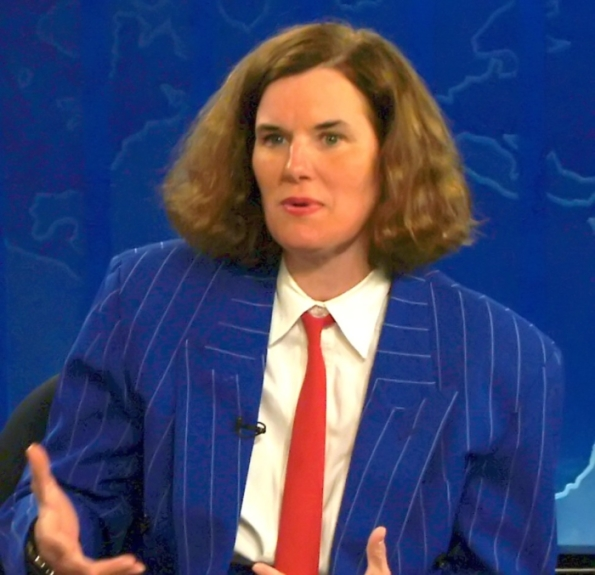 A photo I took of comic Paula Poundstone Please acknowledge "Phil Konstantin" as the creator of this photograph.